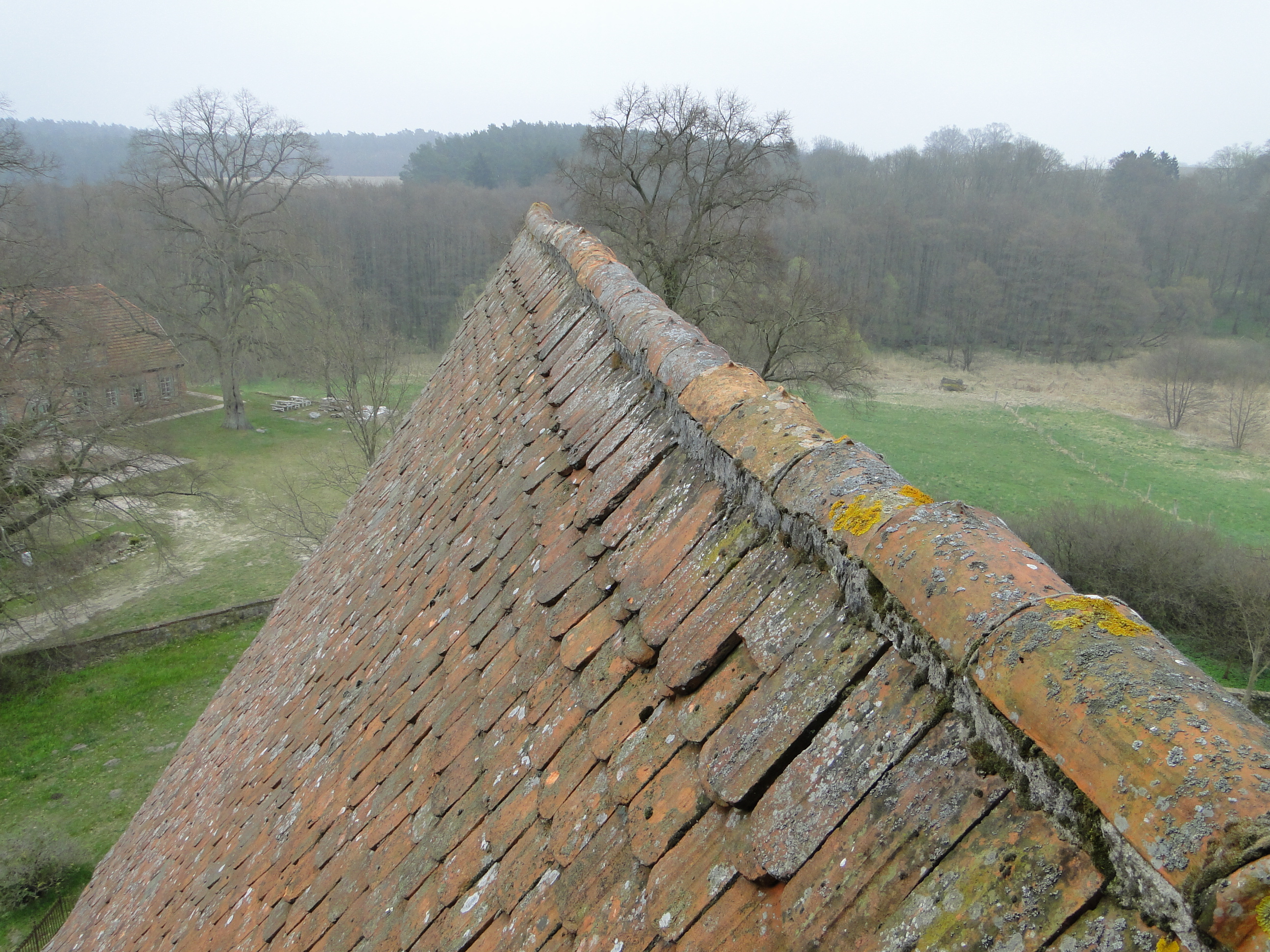 Church in Bellin, district Rostock, Mecklenburg-Vorpommern, Germany